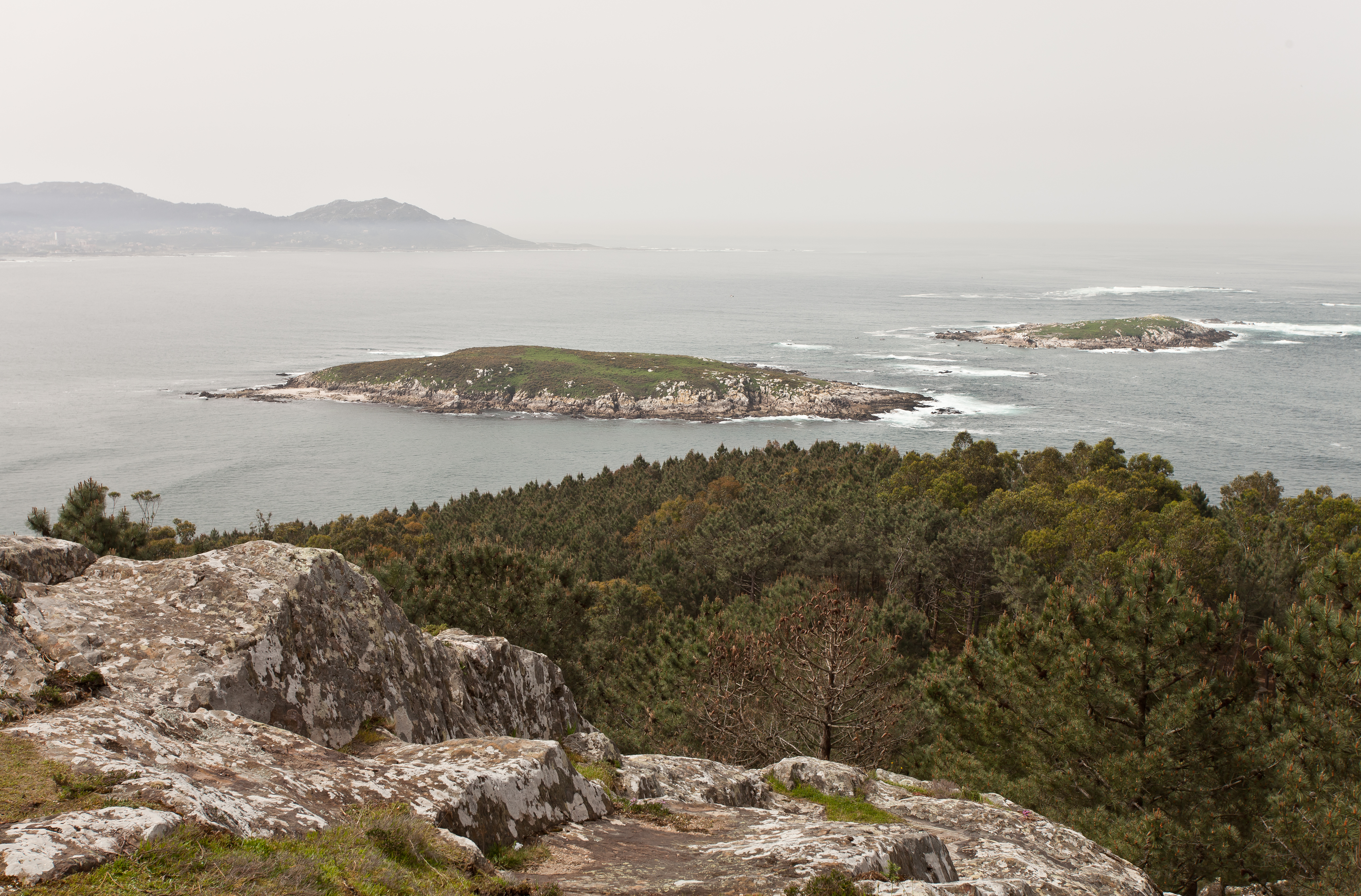 Estelas islands, Monteferro, Nigrán, Galicia (Spain). There was African wind warm, full of dirt.